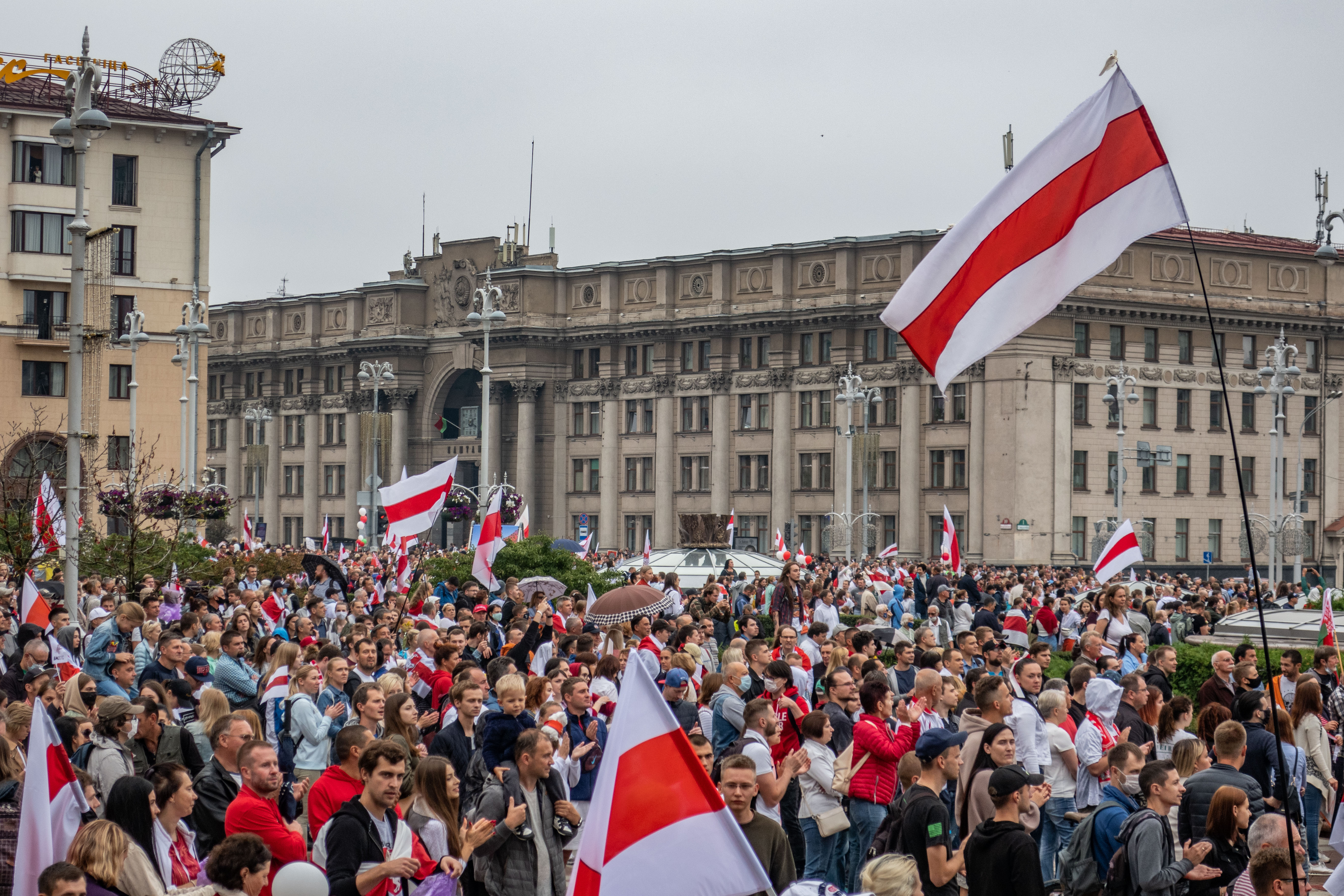 Protest rally against Lukashenko, 23 August 2020. Minsk, Belarus